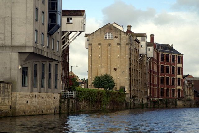 Converted warehouses, Westmoreland, Bath. Former warehouses off the Lower Bristol Road south of the Avon